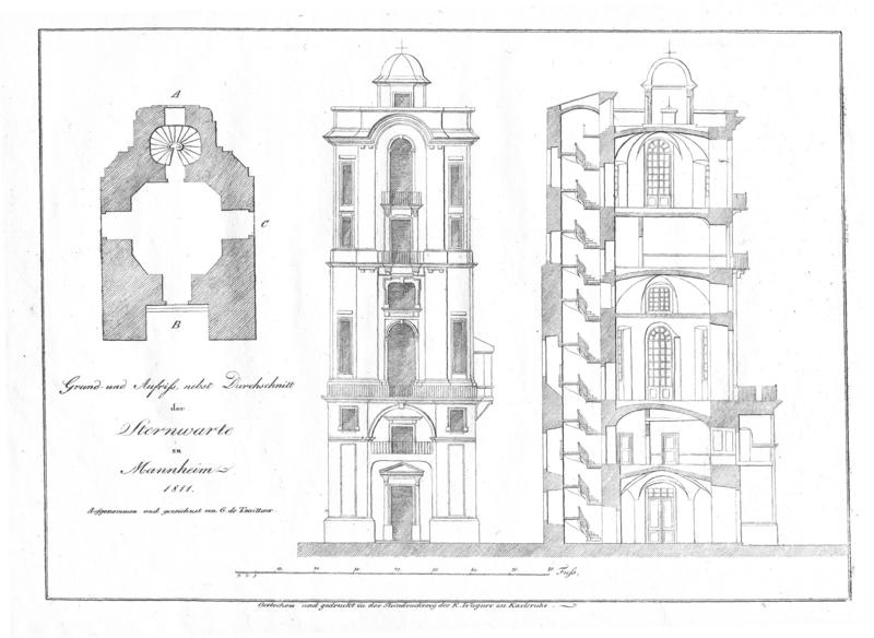 Plan of the Mannheim Observatory